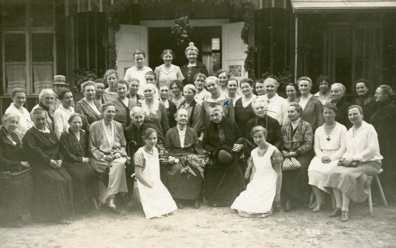 Olga Friedemann was a prominent leader of home-work for woman. This foto shows nearly all East-Prussia leaders of the Reichsverband deutscher Hausfrauenvereine. Beside Friedemann perhaps Hedwig Heyl from Berlin